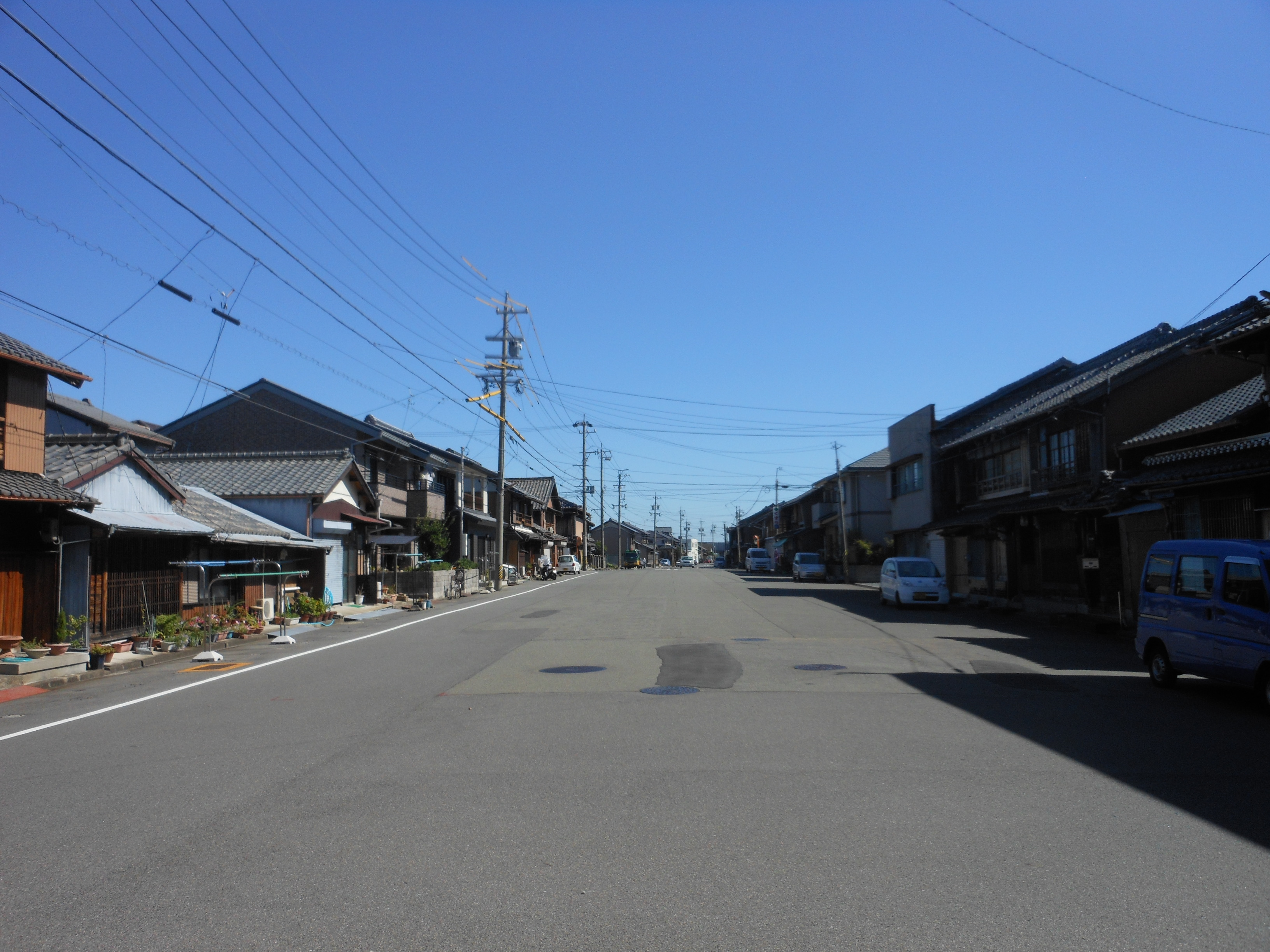 This is a landscape of Tomidaisshiki-cho, Yokkaichi city, Mie prefecture, Japan.